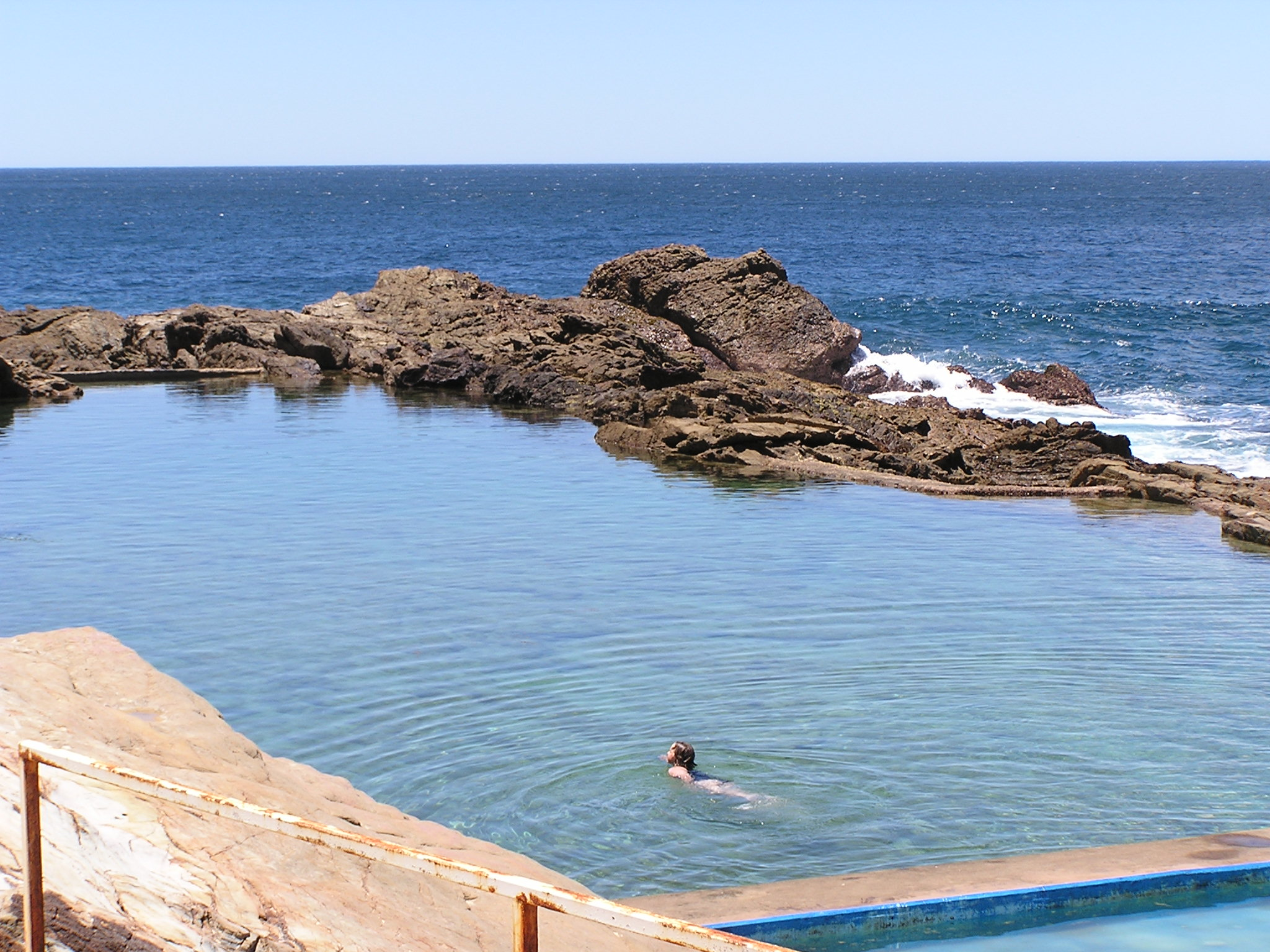 Blue Pool at Bermagui, New South Wales, Australial, copyright (WT-en) AYArktos, 2004